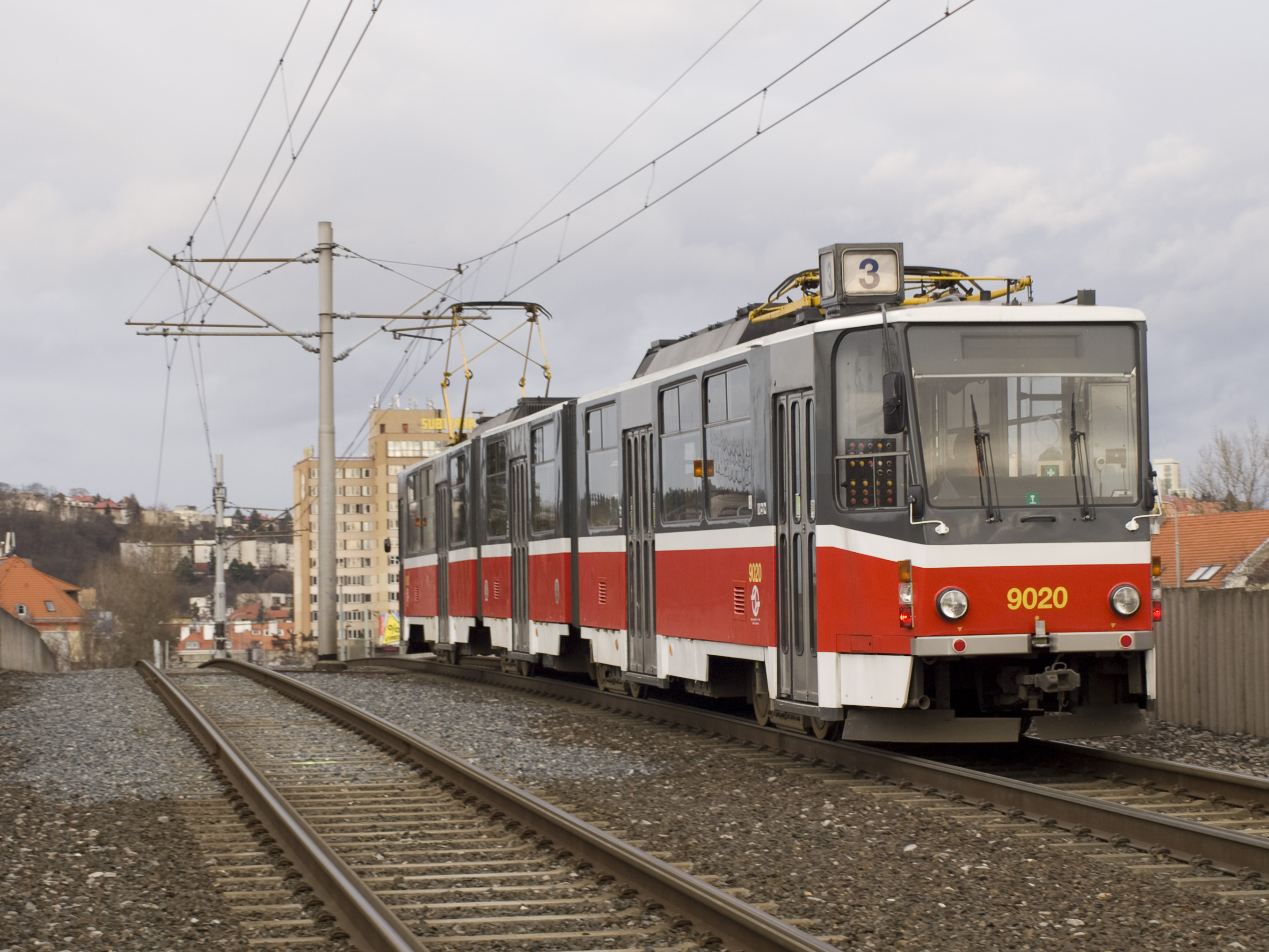 Tatra KT8D5, Nádraží Braník, Prague